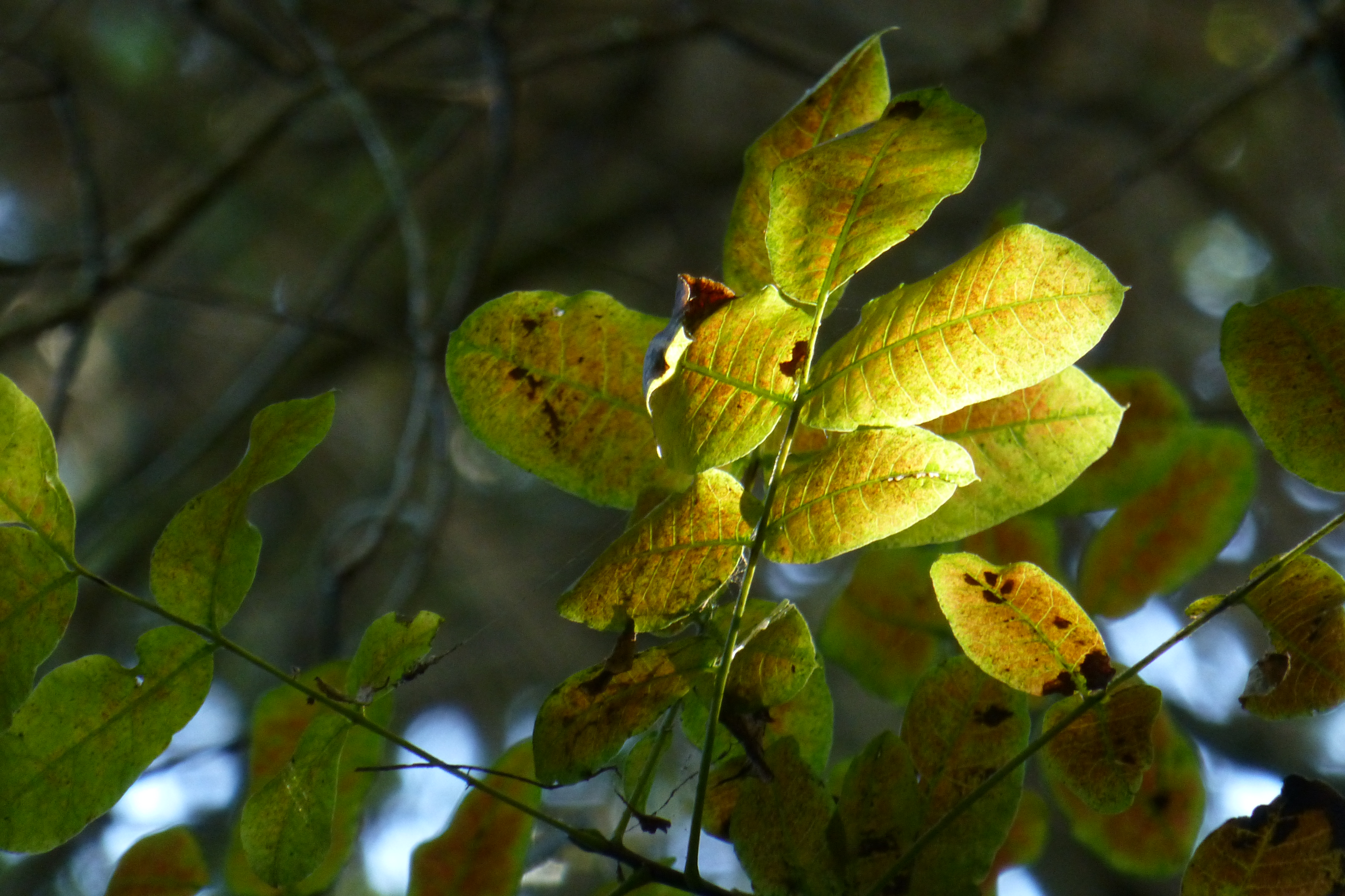 Mount Carmel